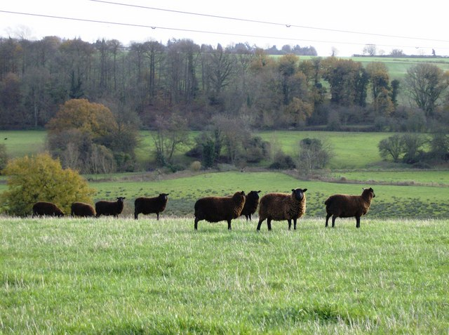 Herdwick sheep An unusual flock of brown sheep. All mavericks? I believe they are Herdwicks, but would appreciate identification. They are on an organic farm.